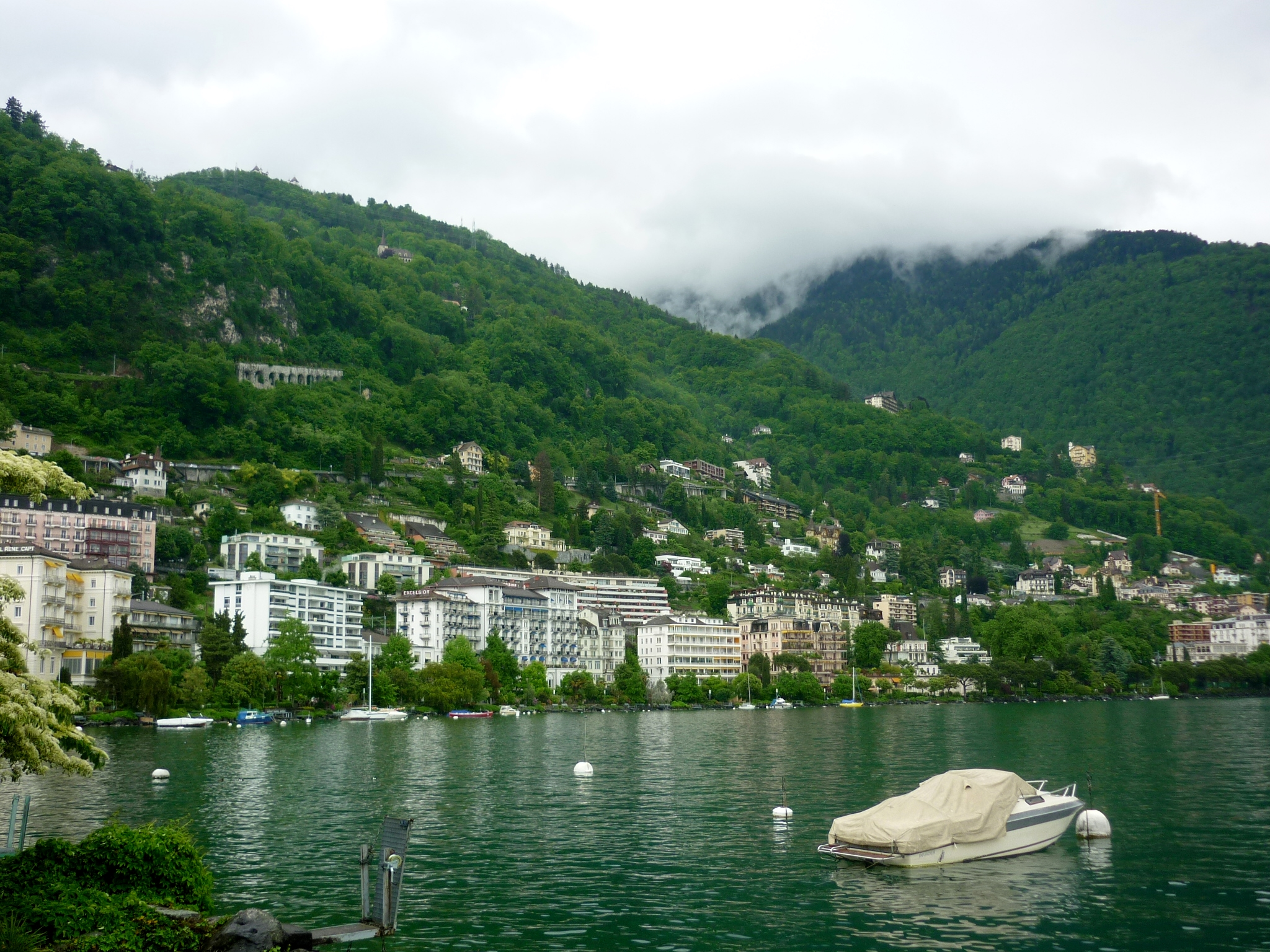 Veytaux, Lake Geneva